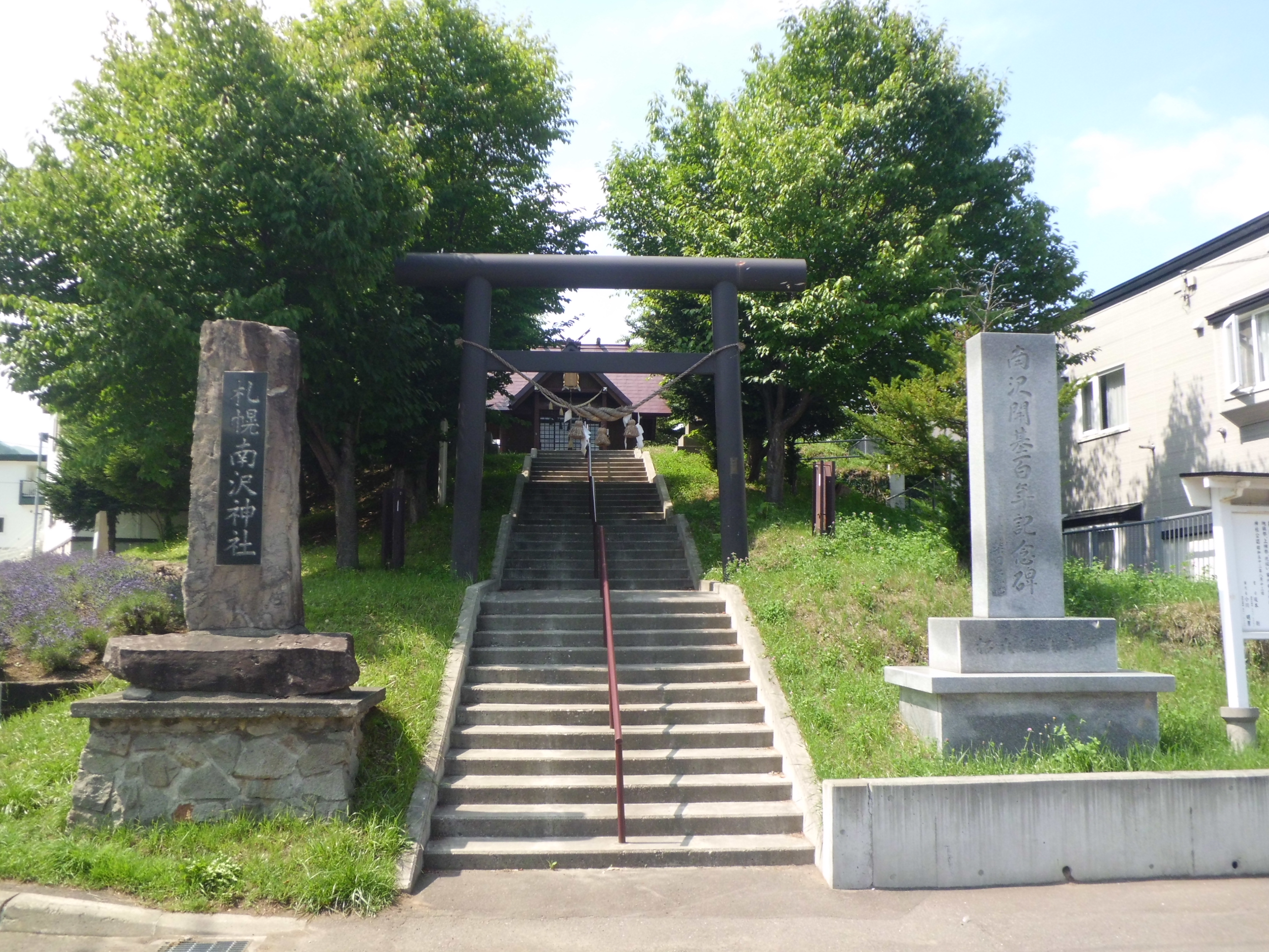 Sapporo Minaminosawa Shrine